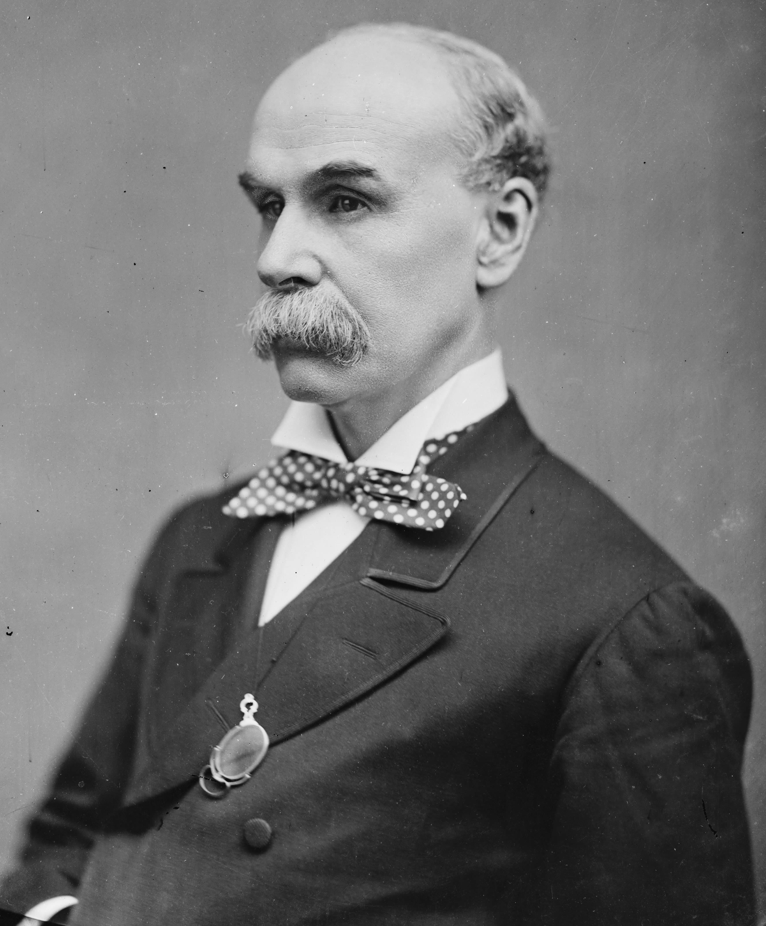 William Pinkney Whyte was a politician who served the State of Maryland in the United States as a State Delegate, the State Comptroller, a United States Senator, the State Governor, the Mayor of Baltimore, Maryland, and the State Attorney General.